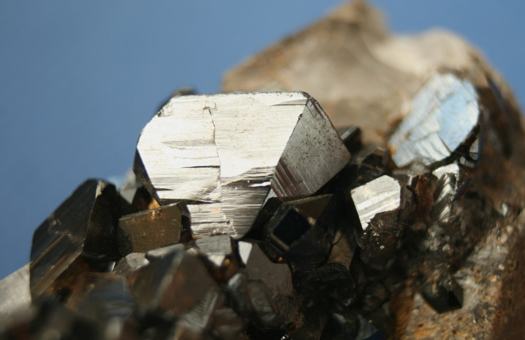 Cassiterite (FOV 30mm) Locality: Blue Tier tinfield, Blue Tier district, Tasmania, Australia; Exposed in the Tasmanian Museum, specimen X6068